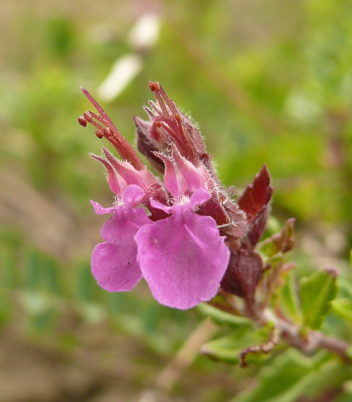 Teucrium chamaedrys, Hohenlohe, Germany